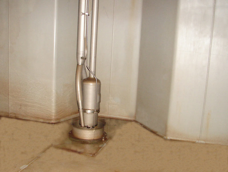 Bottom of a submerged pump in a tank of the Chassiron.